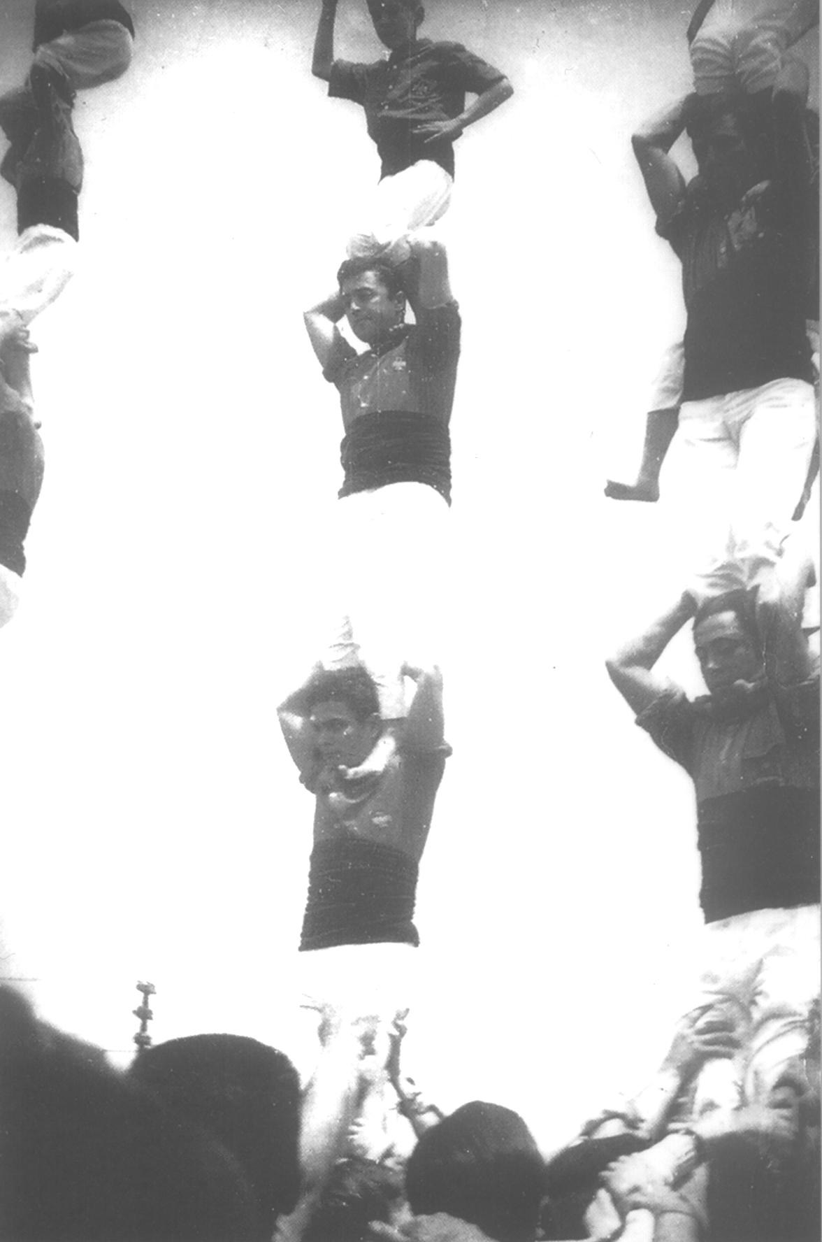 First performance Castellers de Barcelona